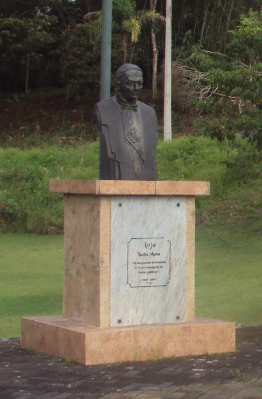 Es un Monumento de Isidro Ayora Cueva ex presidente de la República del Ecuador, quien gobernó en el período de 1926-1931.